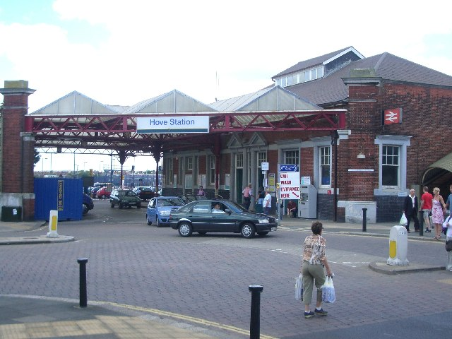 Hove station. looking west, with Goldstone Villas to the left